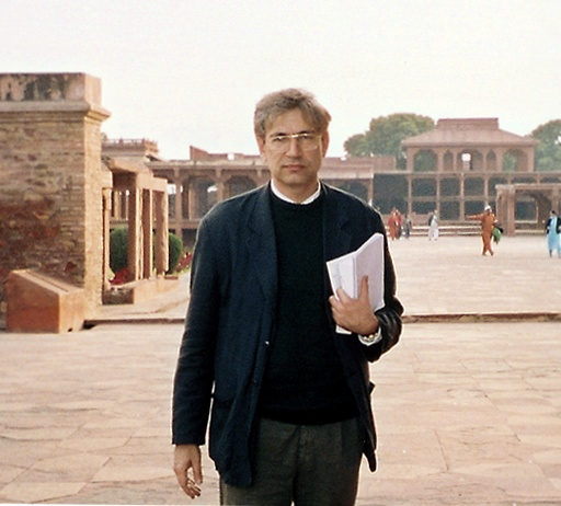 Orhan Pamuk, turkish novelist.